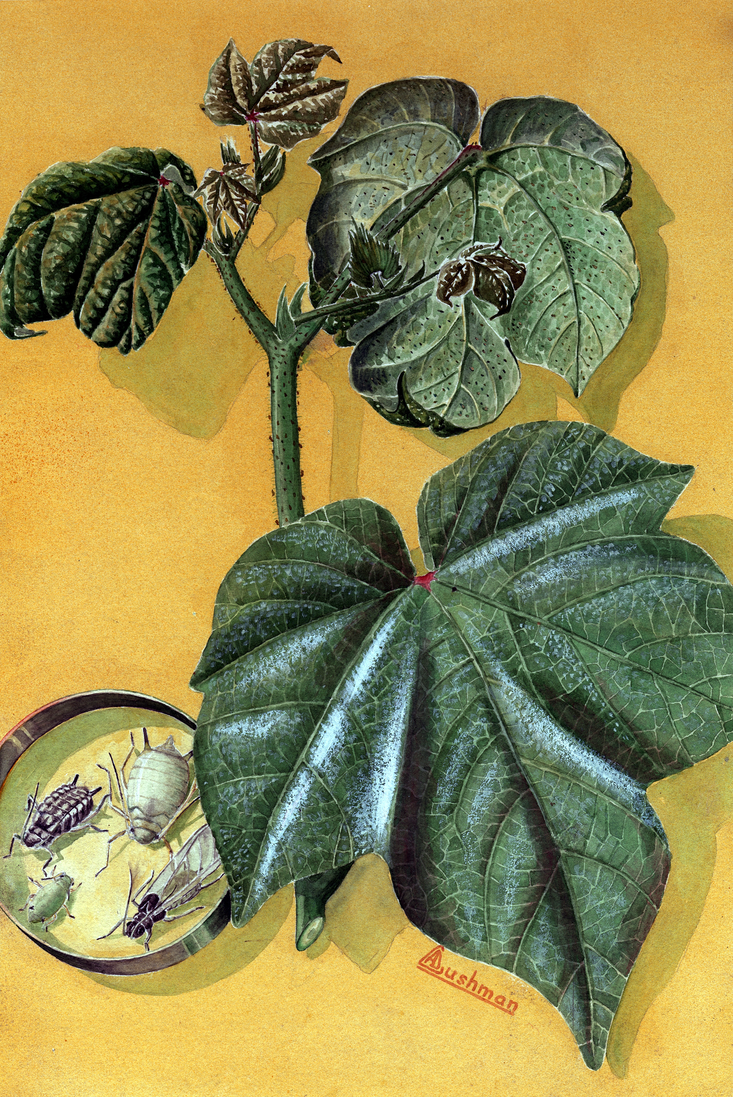 Drawing of Aphis gossypii (Cotton/Melon Aphid), from the 1952 Yearbook of Agriculture Available at (Page n818)